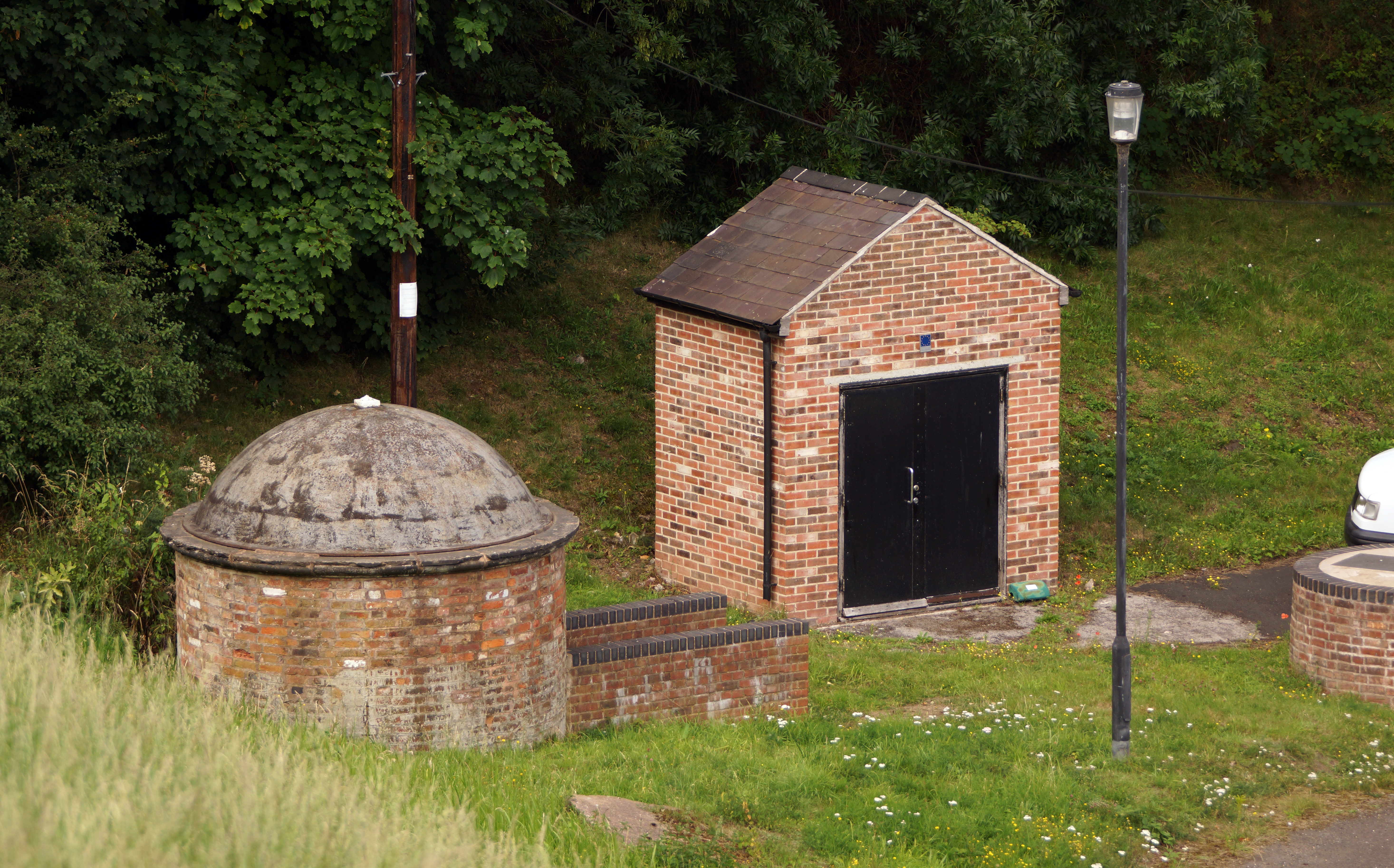 The reservoir water outflow control gear housing (valve house) below Edgbaston Reservoir in the Icknield Port Loop of the original Birmingham Canal Old Main Line built by James Brindley, 1769, in Birmingham, England. The reservoir was built to supply water to this canal. This low-level valve controlled water to the Birmingham Level of the canal from a weir just below it.